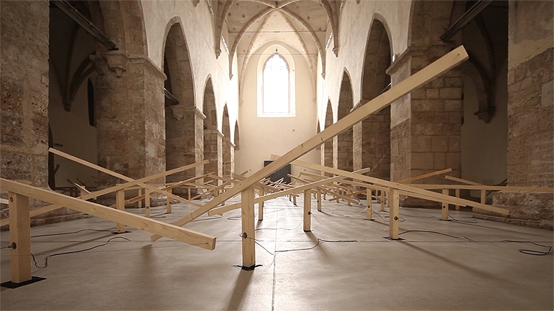 Installation 150 prepared dc-motors, 270kg wood, 210m string wire, Zimoun 2015. Installation view: Klangraum Krems, Austria, 2017.